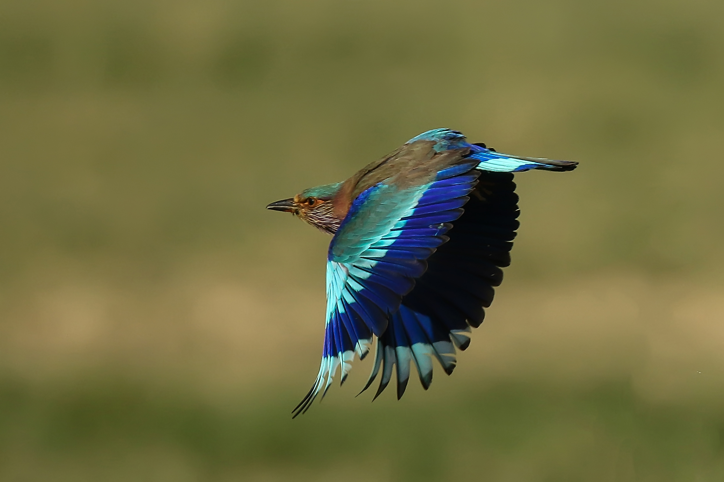 Indian roller (Coracias benghalensis)